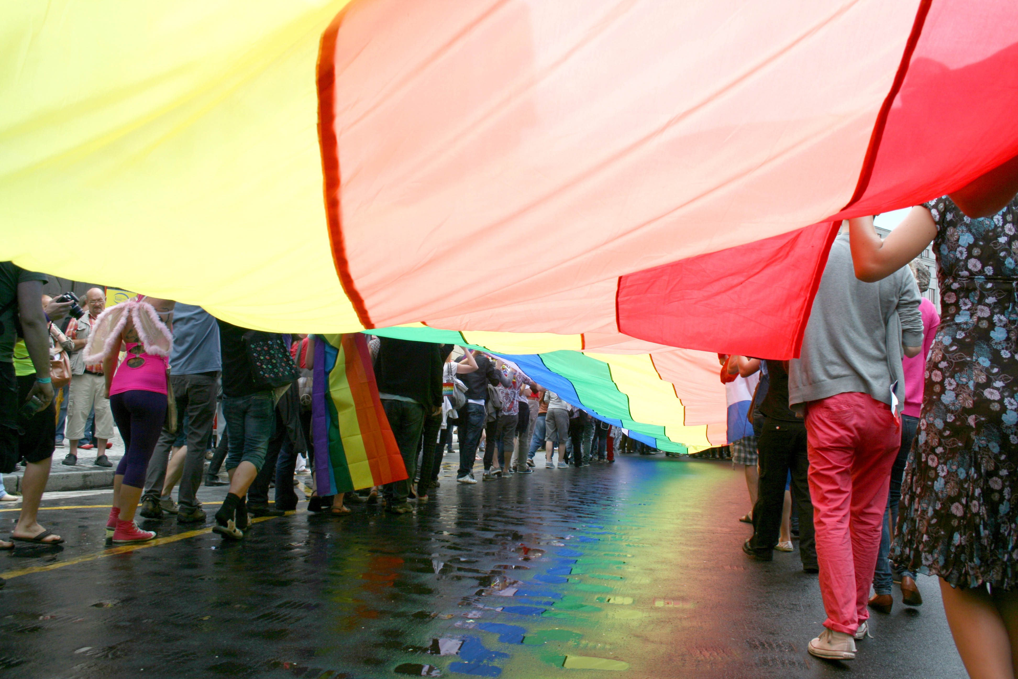 Prague Pride 2011, The parade at Náměstí Republiky in Prague.